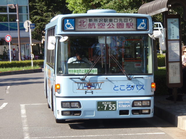 " Tokoro Bus ", the community bus in Tokorozawa city, Japan. Location : the bus rotary of Kōkū-kōen Station East exit